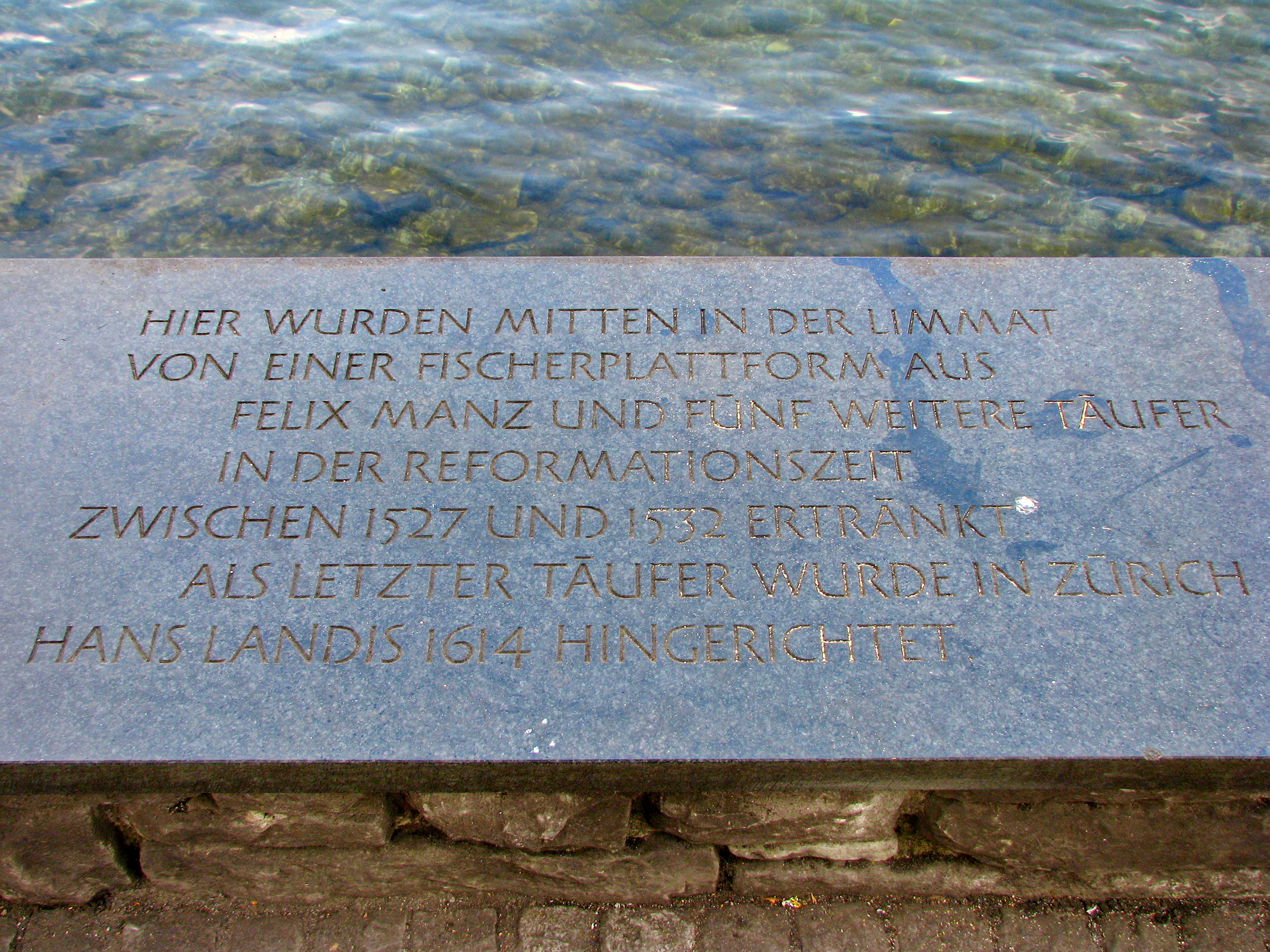 Zürich-Schipfe quarter : Memorial plate for the Anabaptists, murdered in early 16th century by the Zürich city government: "Here in the middle of the River Limmat from a fishing platform were drowned Felix Manz and five other Anabaptists during the Reformation of 1527 to 1532. Hans Landis, the last Anabaptist, was executed in Zurich during 1614."